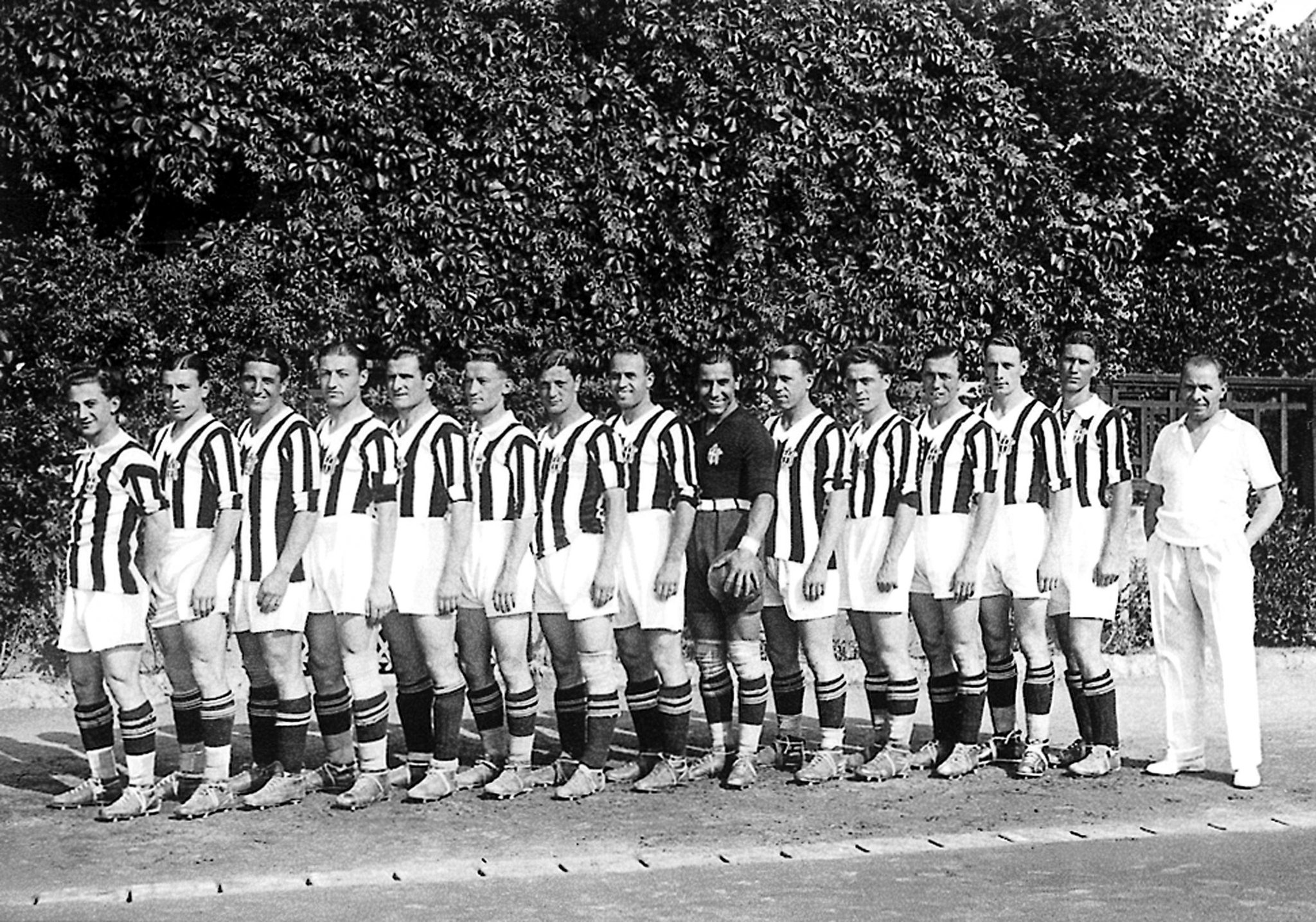 The first-team squad of F.C.B. Juventus in the 1931–32 season. From left to right: P. Sernagiotto "Ministrinho", R. Orsi, G. Vecchina, U. Caligaris, L. Monti, M. Ferrero, R. Cesarini, G. Ferrari, G. Combi, V. Rosetta (captain), F. Munerati, M. Varglien (I), L. Bertolini, G. Varglien (II), C. Carcano (coach).